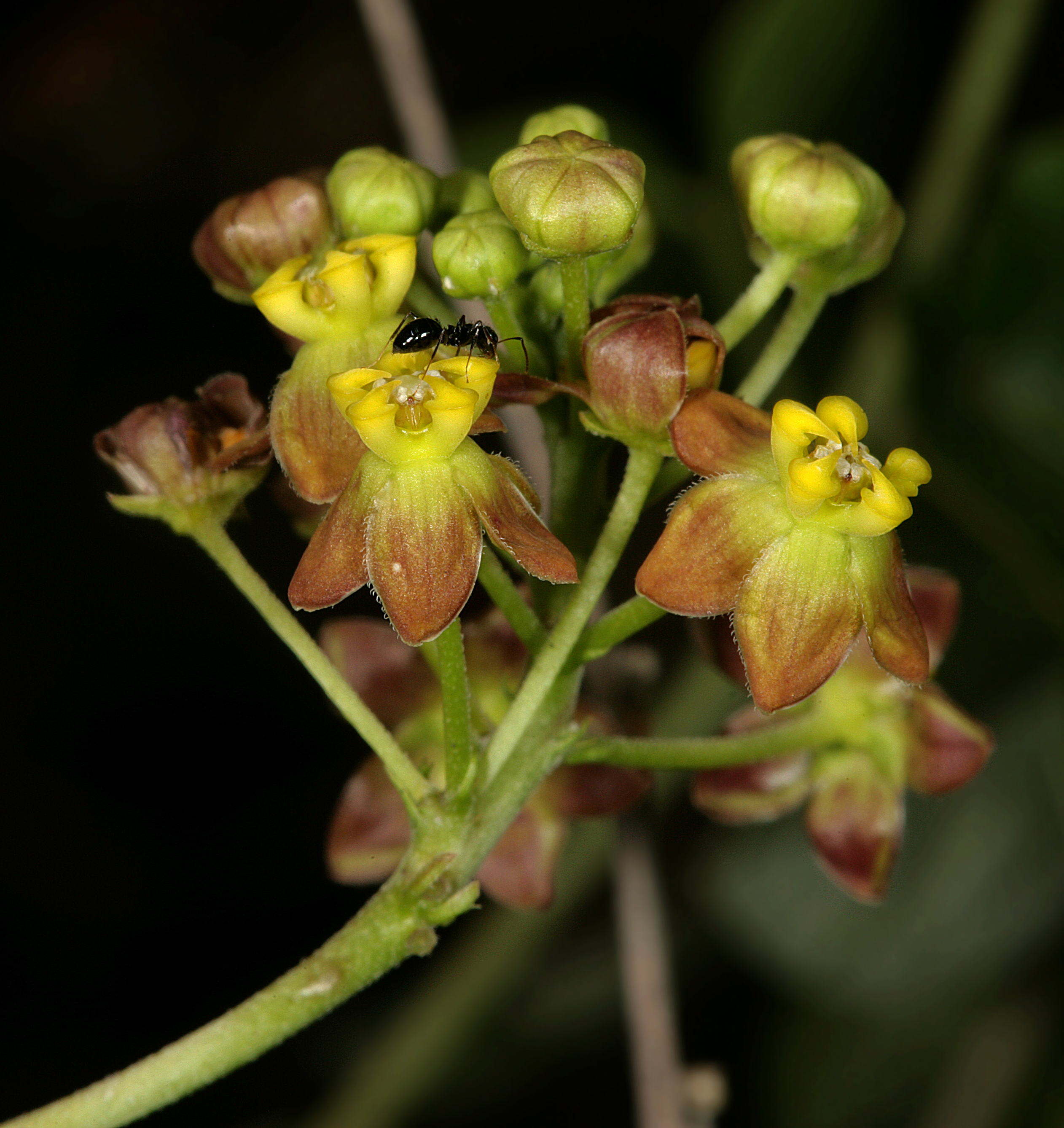 Cynanchum insipidum, flowers; University of Pretoria Experimental Farm, Hillcrest, Pretoria, Gauteng, South Africa